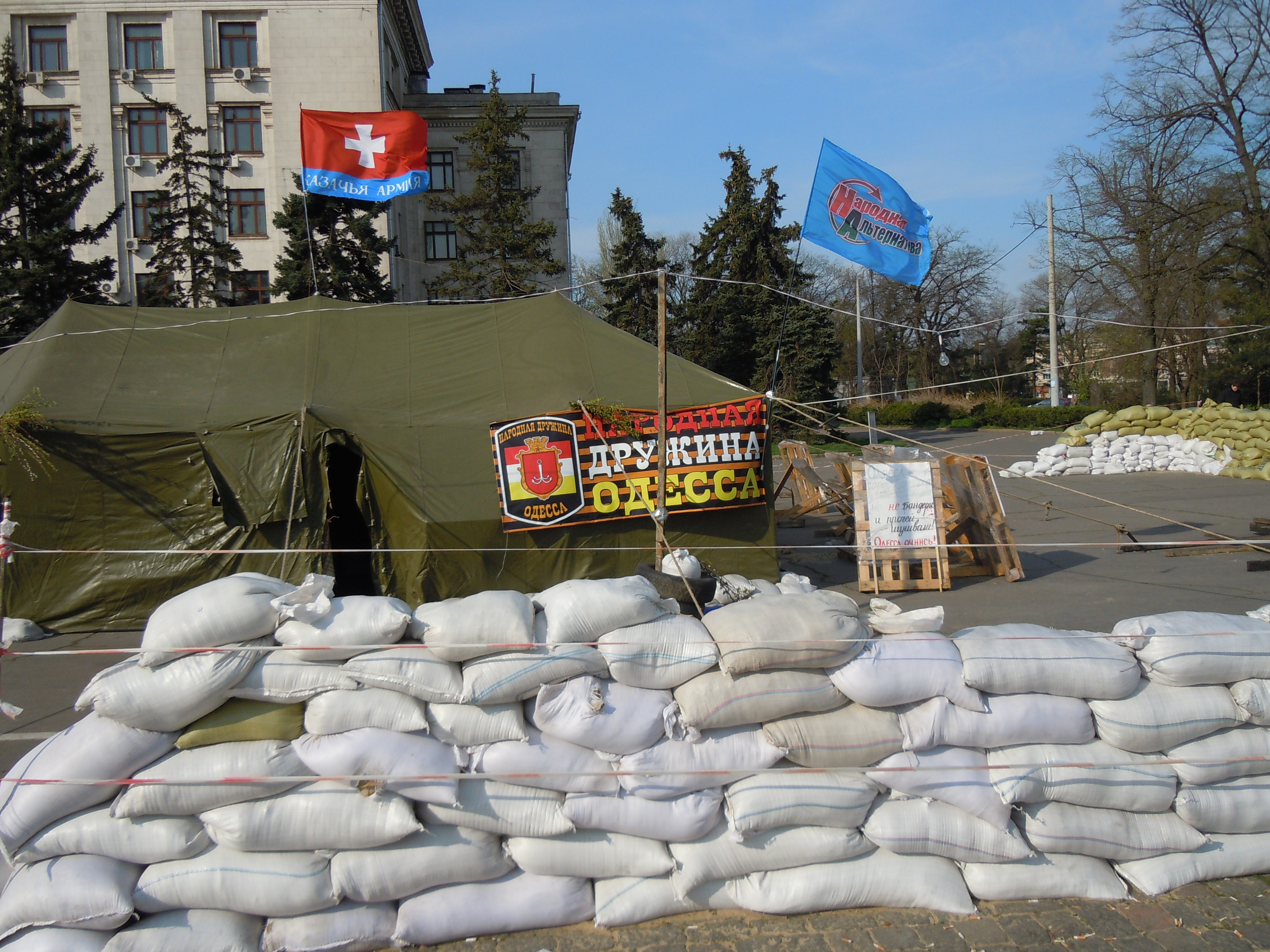 The tents encampment of Russian nationalists at the Kulikove Pole square in Odessa, Ukraine